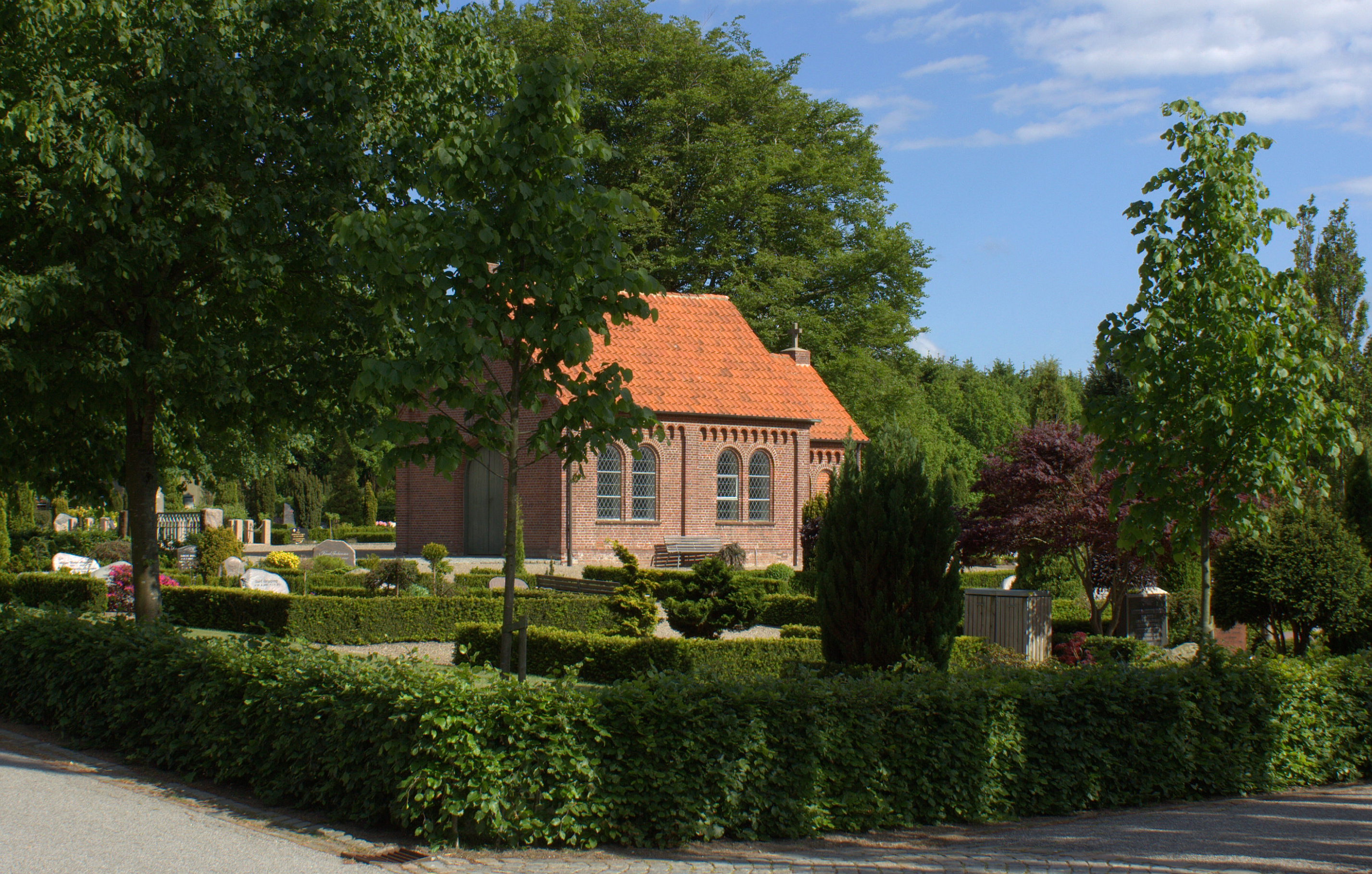 Vojens Kirke is a reunionchurch, from the beginning of the 1920s and was inagurated 6. september 1925. The church yard is older than the church and it was taken in use 28. Januar 1878. In the middle of the churchyard, lies "the red chapel", which was built a few years after the churchyard was established and the chapel was taken in use in 1883.